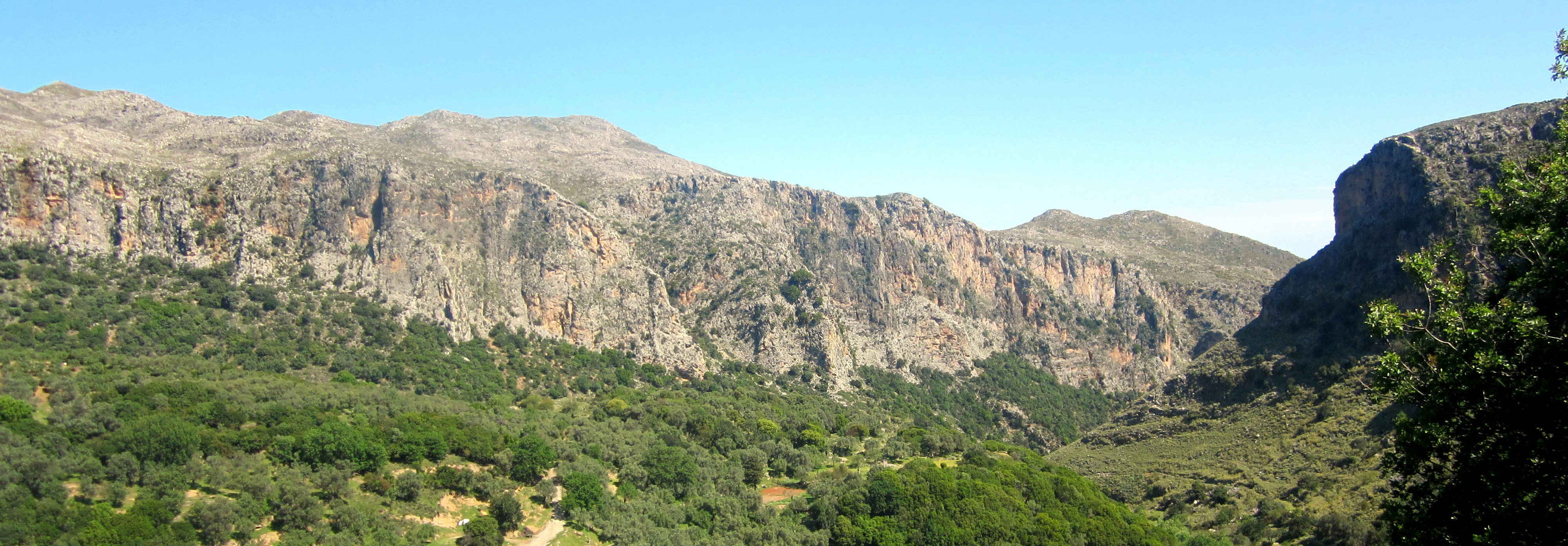 Sirikari Gorge, Crete, Greece.